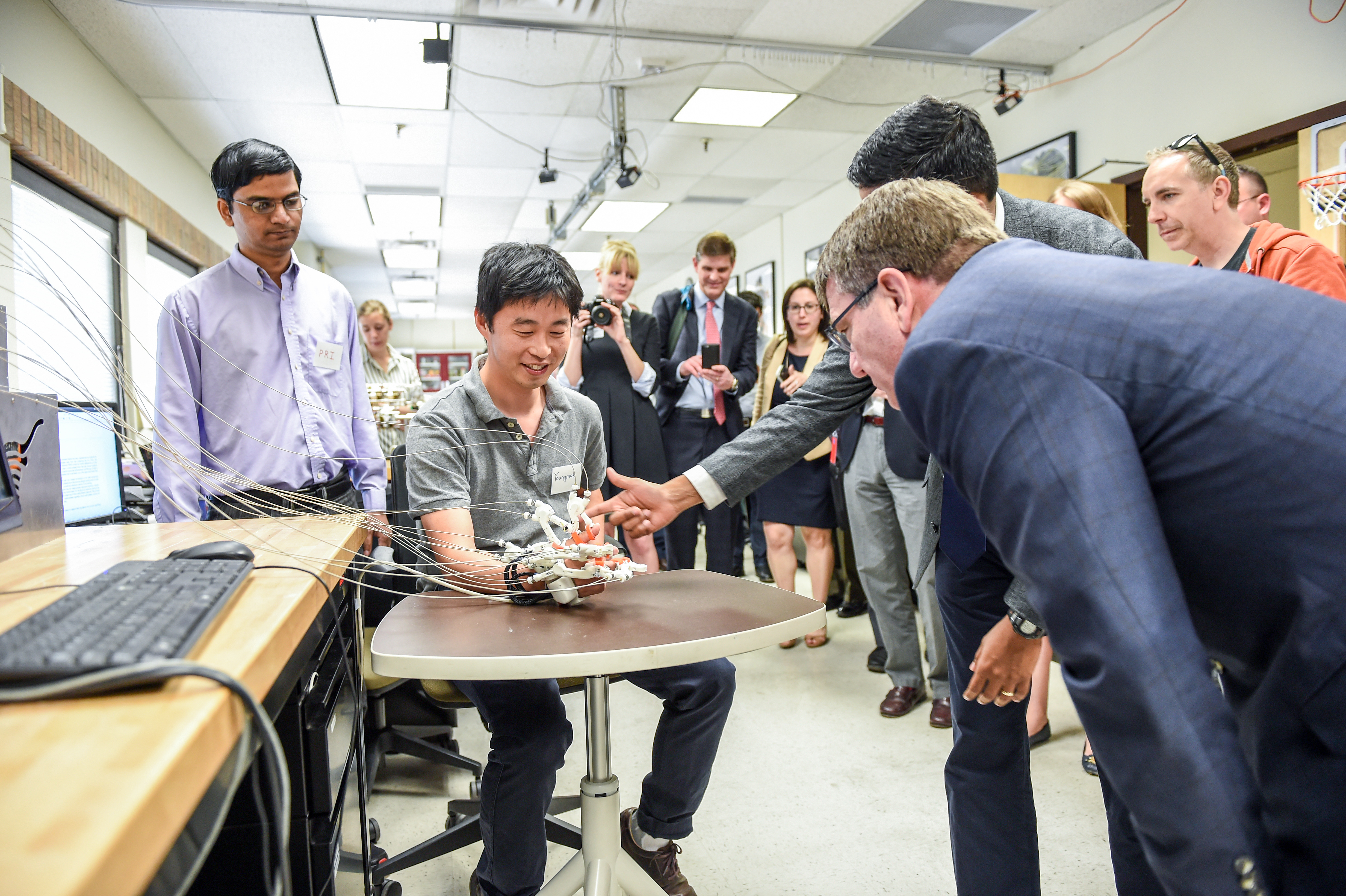 Secretary of Defense Ash Carter tours the Rehabilitation and Neuromuscular Robotics Lab, March 31, 2016. (DoD photo by U.S. Army Sgt. 1st Class Clydell Kinchen) (Released) Unit: Office of the Secretary of Defense Public Affairs